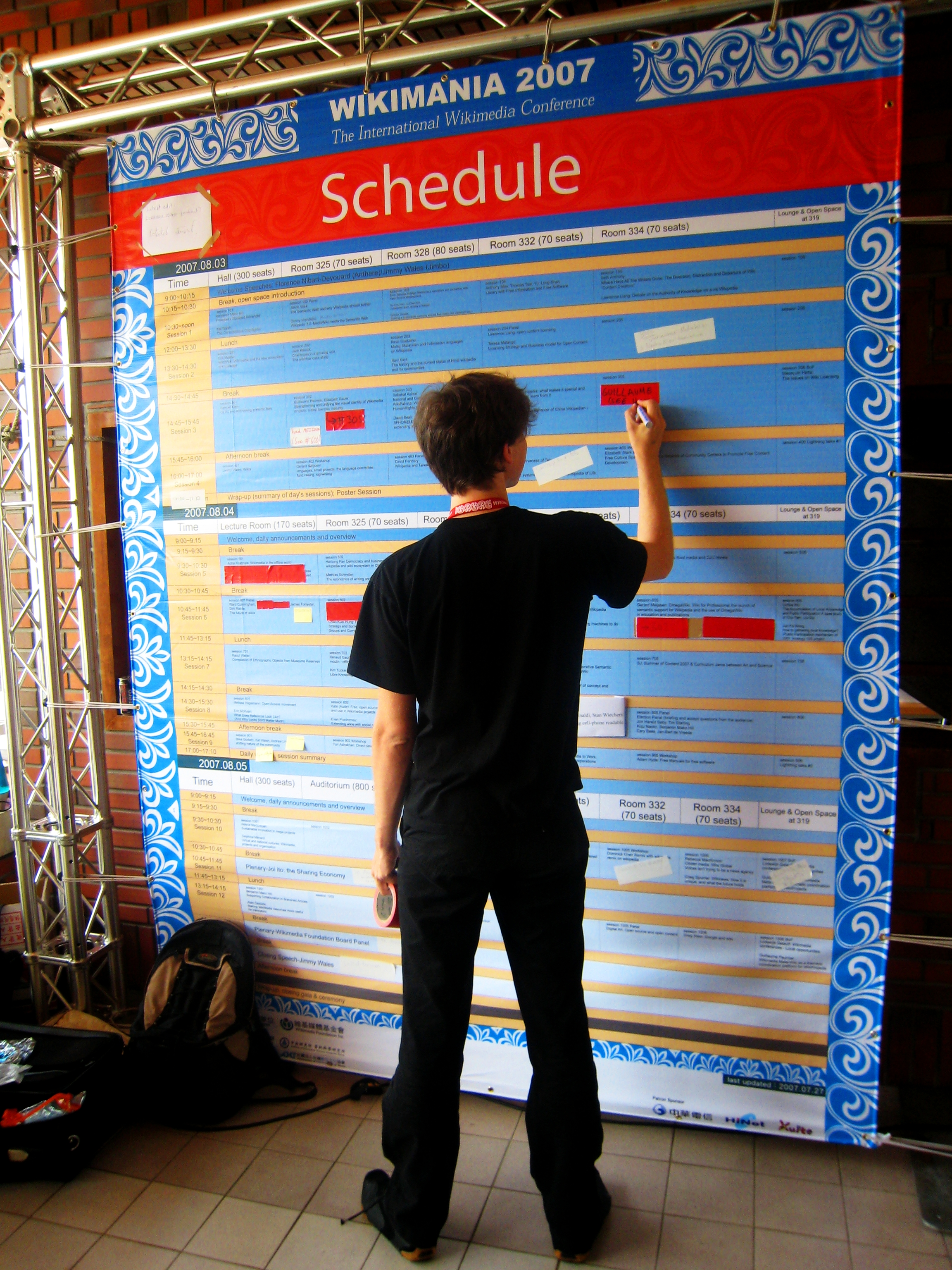 At Wikimania, everything's a wiki. Even the big printed schedule.